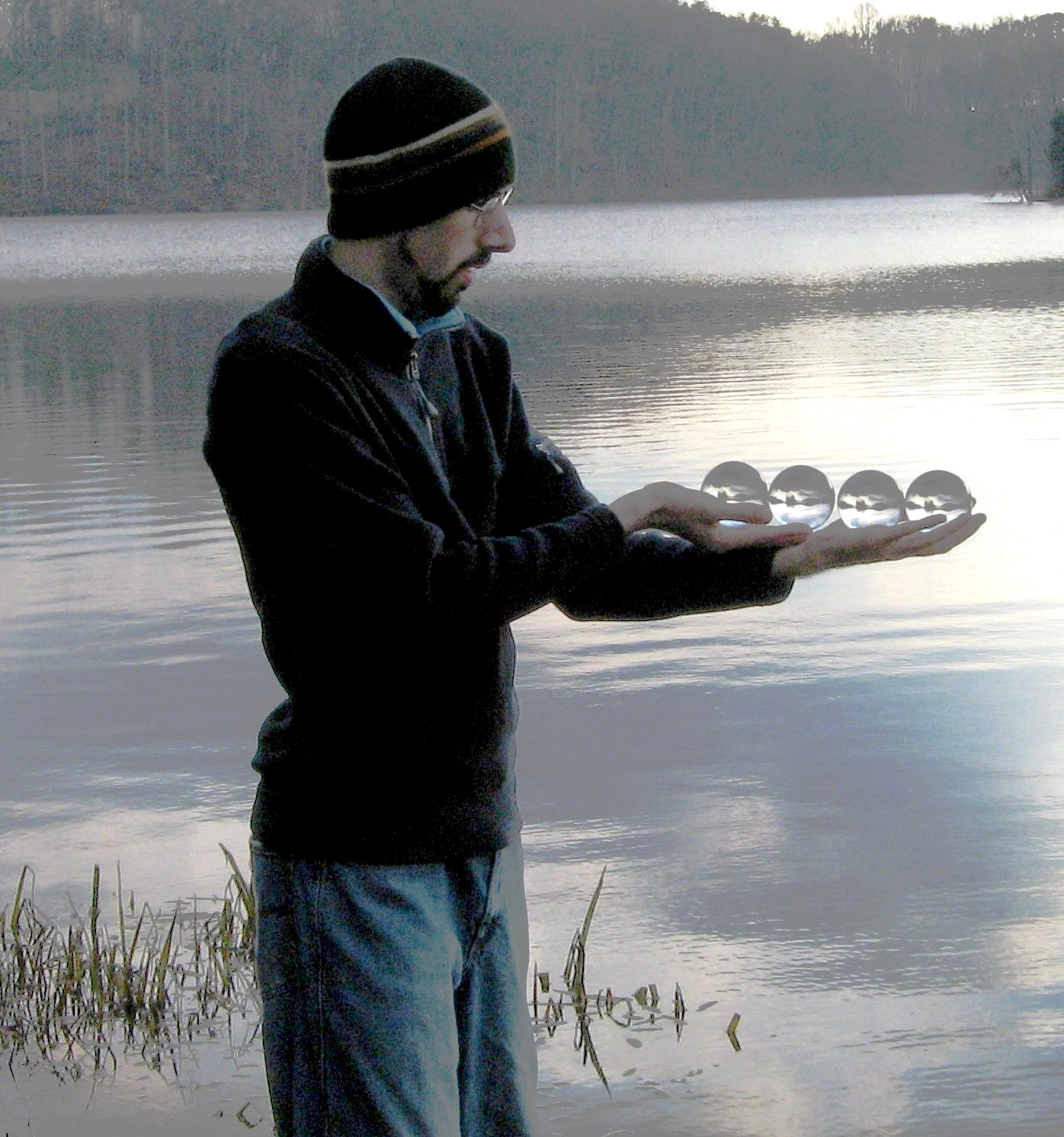 This is a digital photograph of someone contact juggling four 3" acrylics with Lake Pelham in the background. It is intended to be used as the main image of the contact juggling page on Wikipedia until a more suitable image is found.